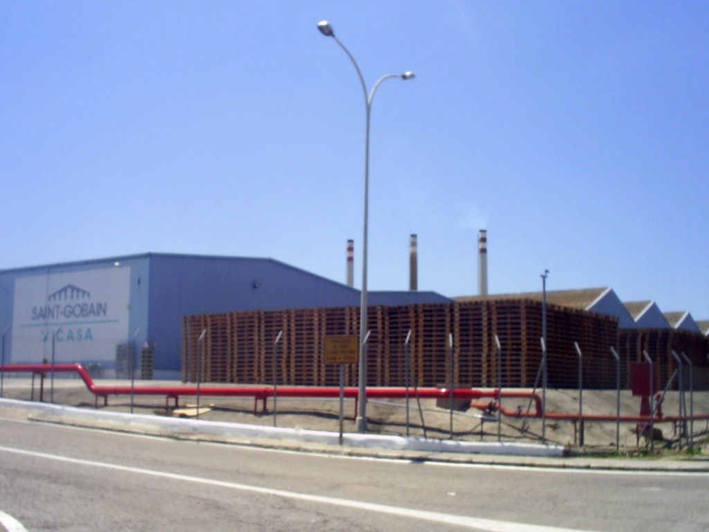 Photograph of Saint-Gobain Vicasa S.A. sherry bottle factory seen from the street. Jerez, Andalusia (Spain).